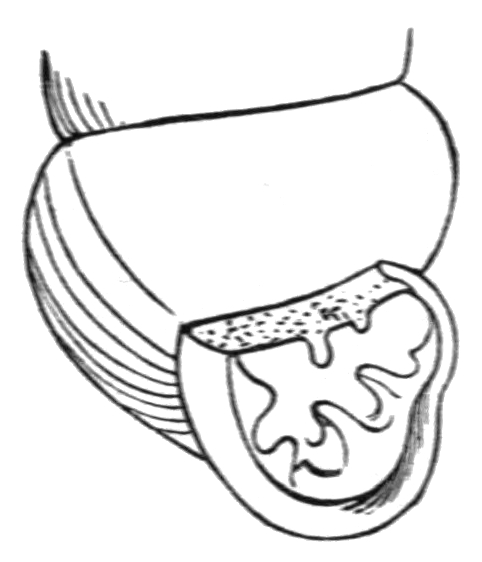 drawing of the aperture of the shell of Vertigo ovata